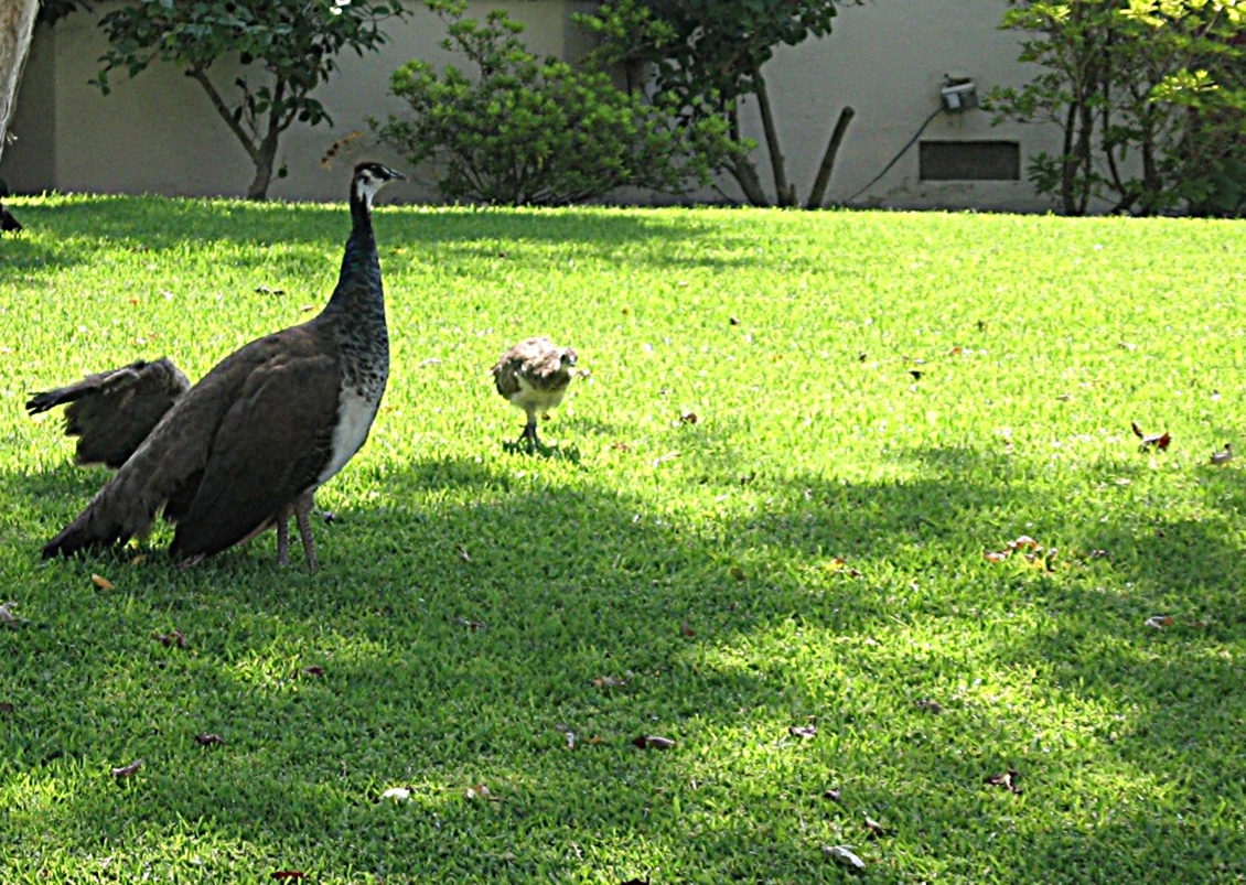 Arcadia Peacock_Peahen